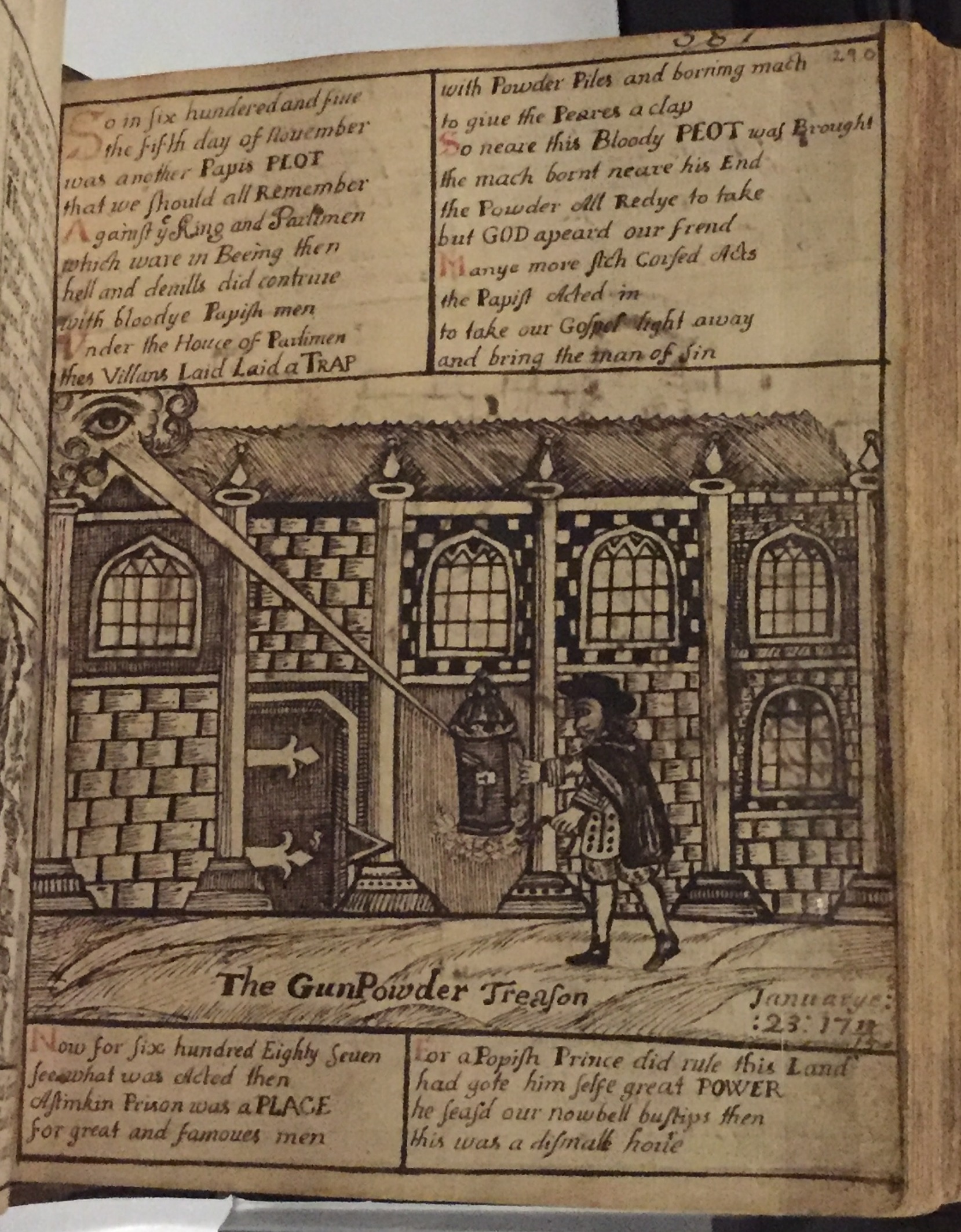 Page of the Bible composed by Abraham Sheares of Exeter (1710 - 1731) that presents the failed Gunpowder Plot of 1605 as a providential victory of Protestants over Catholics.